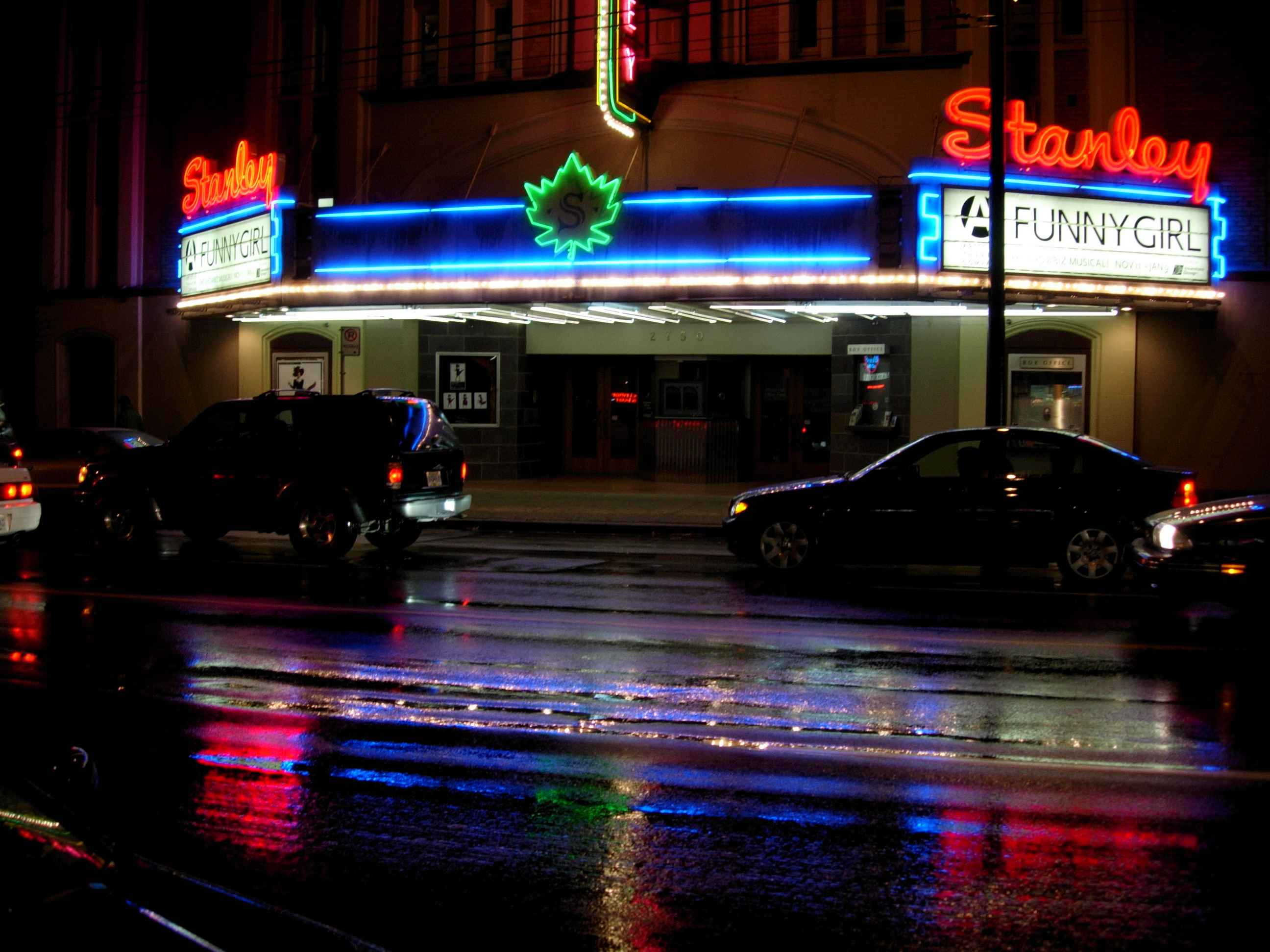 I was given permission to use this photo under terms of the GNU Free Documentation License by copyright holder Robert Werner, Vancouver, BC. Blogspot: Night shot of the Stanley Theatre showing Funny Girl.